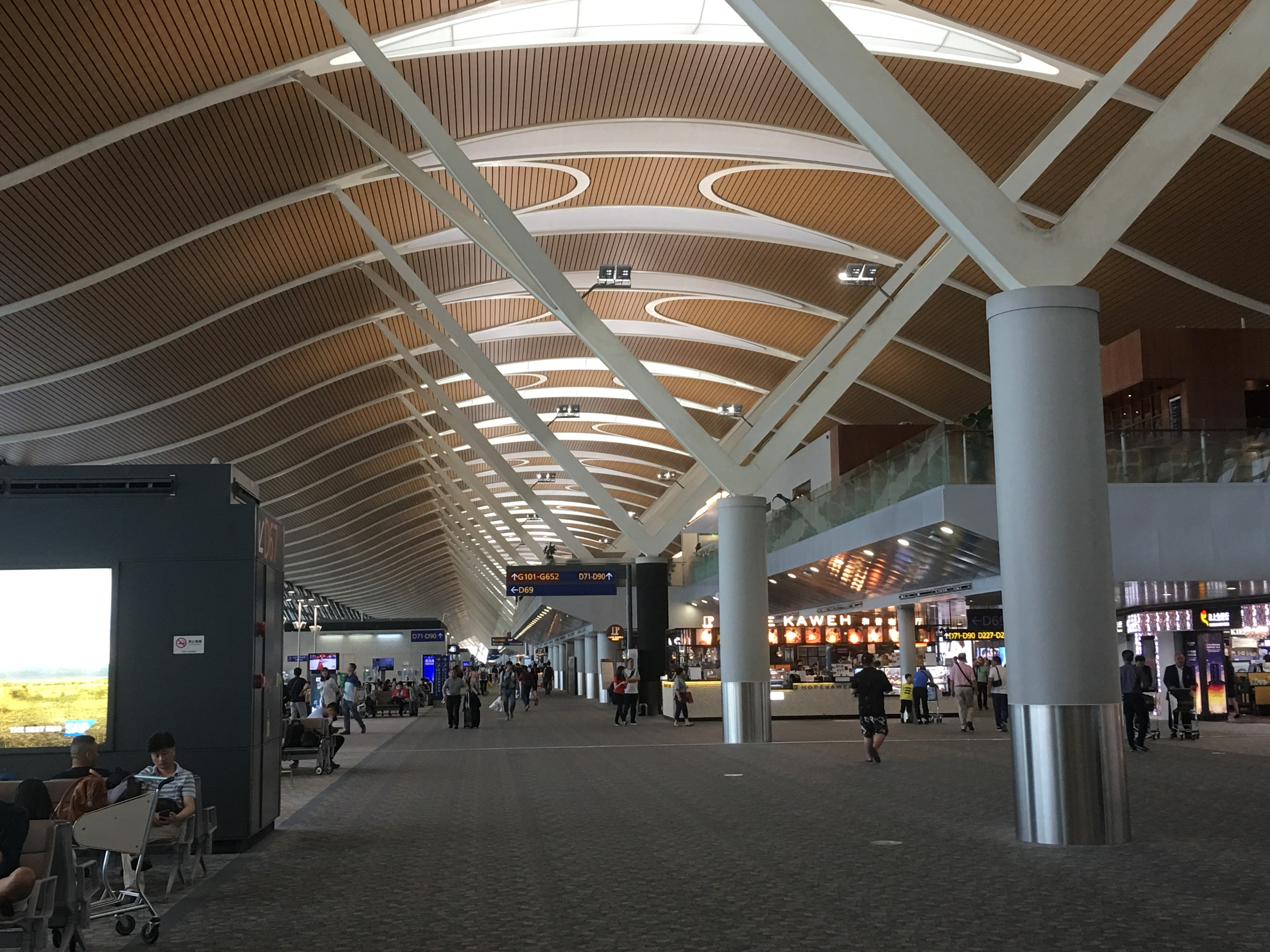 Interior of Terminal 2